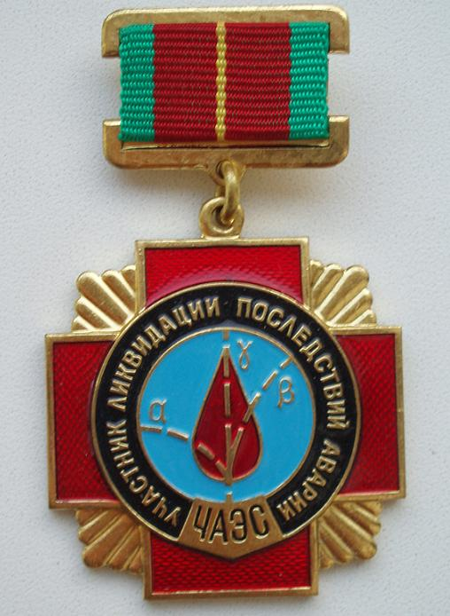 Badge for Liquidation Of The Chernobyl Incident.